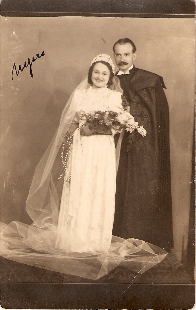 Marriage photo